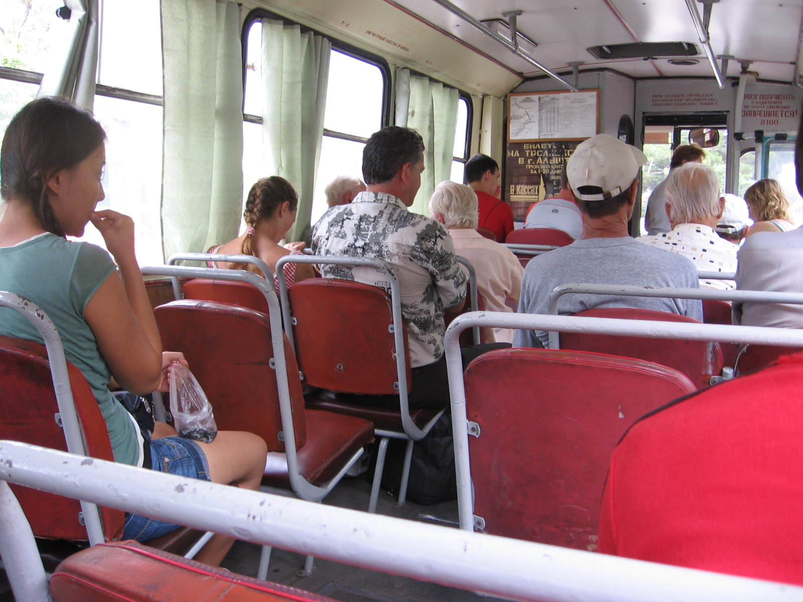 Interior of the 52 Simferopol - Alushta - Yalta inter-city trolleybus. Trolleybus model is Škoda 14Tr. Photo taken before it began to move from its end station in Yalta.